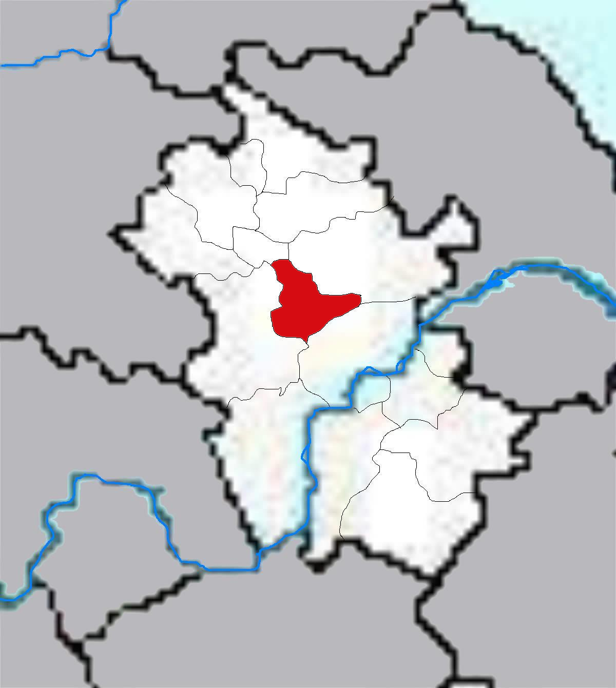 Maps of Anhui Province of China